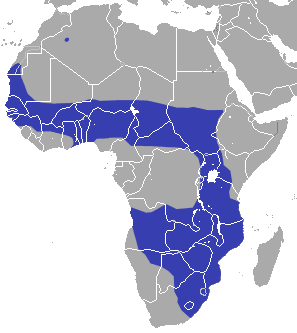 African Savanna Hare (Lepus microtis) range